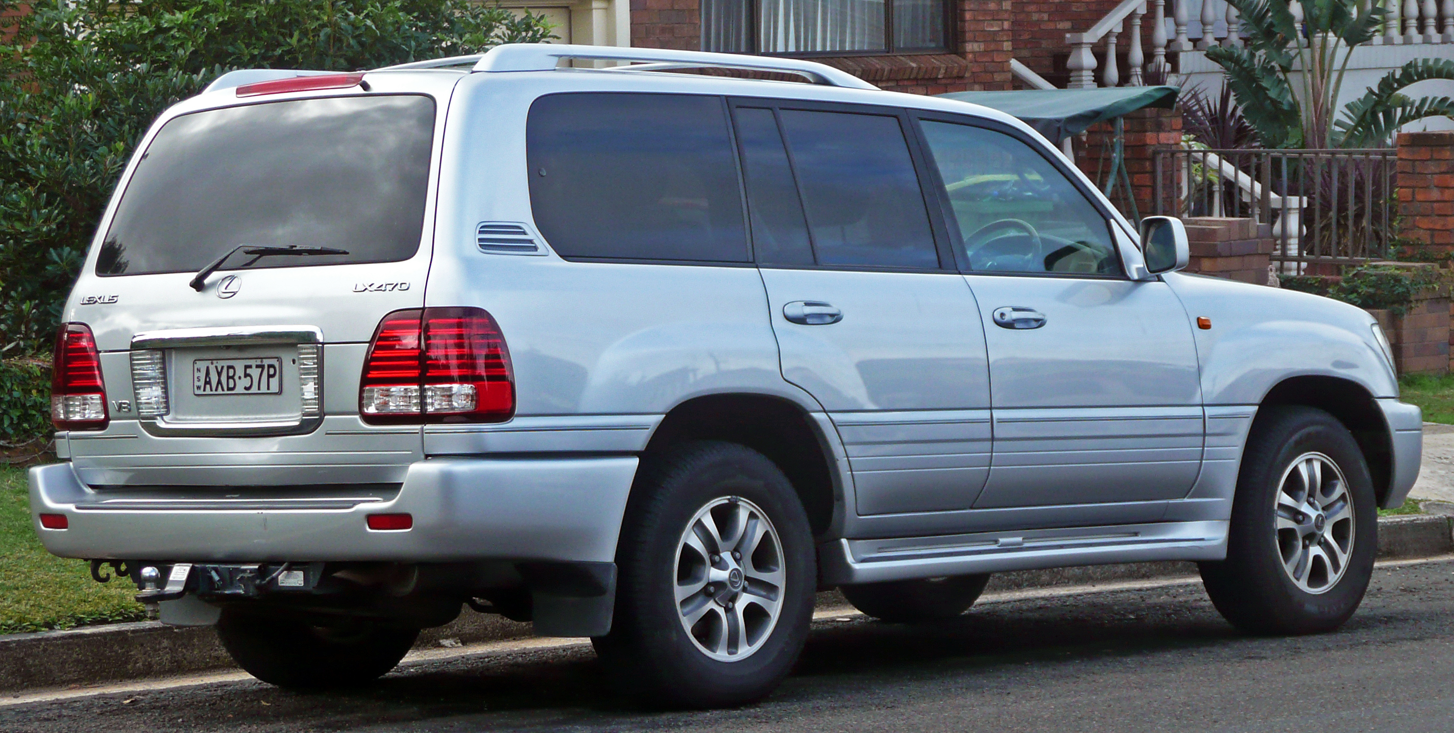 2005 Lexus LX 470 (UZJ100R MY06) wagon. Photographed in Cronulla, New South Wales, Australia.